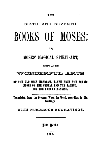 Scan of the frontpiece of the 1880 translation of the 1849 Johann Scheible (editor) version of The Sixth And Seventh Books Of Moses. No Author given. "The sixth and seventh books of Moses: or, Moses' magical spirit-art, known as the wonderful arts of the old wise Hebrews, taken from the Mosaic books of the Cabala and the Talmud, for the good of mankind. Translated from the German, word for word, according to old writings". s.n., New York 1880. translation of Das sechste und siebente Buch Mosis, das ist: Mosis magische Geisterkunst, das Geheimniss aller Geheimnisse. Sammt den verdeutschten Offenbarungen und Vorschriften wunderbarster Art der alten weisen Hebräer, aus den Mosaischen Büchern, der Kabbala und den Talmud zum leiblichen Wohl der Menschen. Wort- und bildgetreu nach alten Handschriften mit 42 Tafeln. (Liepzig, 1849). Online scans avalilable at: The Sixth and Seventh Books of Moses and "The sixth and seventh books of Moses: or, Moses' magical spirit-art, known as the wonderful arts of the old wise Hebrews, taken from the Mosaic books of the Cabala and the Talmud, for the good of mankind